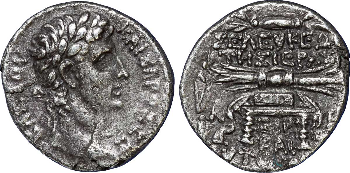 Séleucie